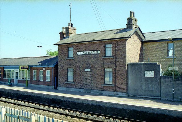 The main station building on Platform 1.